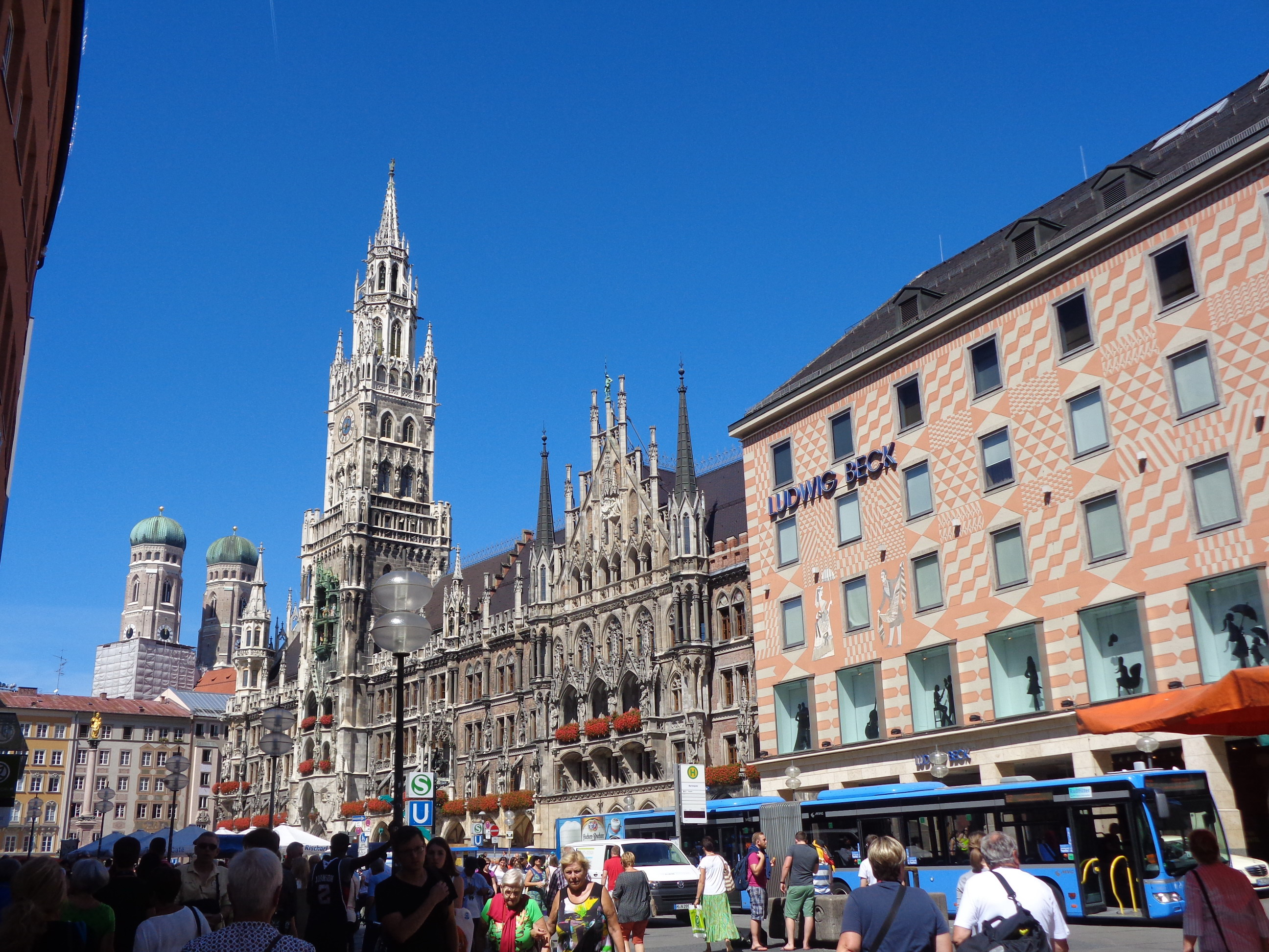 Marienplatz (Mary's Square), Munich, Germany - southeast view